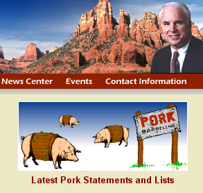 From the main official web site of U.S. Senator John McCain, archived in 2006 by (the material dates back at least to 2003 at McCain's web site).